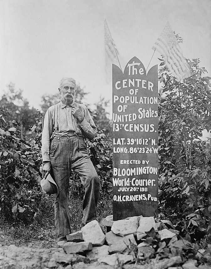 Mean center of United States population [man standing next to memorial stone]